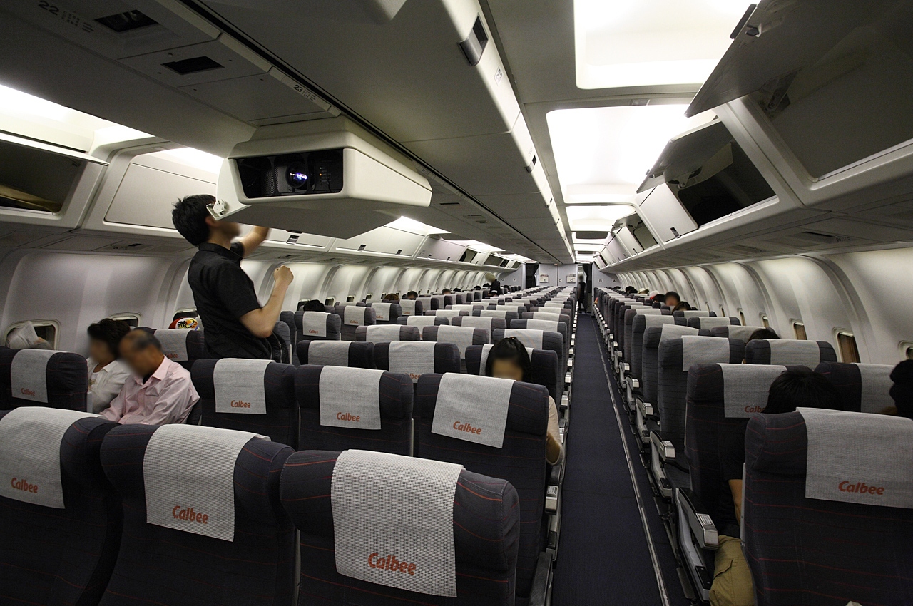 Interior of Hokkaido International Airlines's Boeing 767-300ER